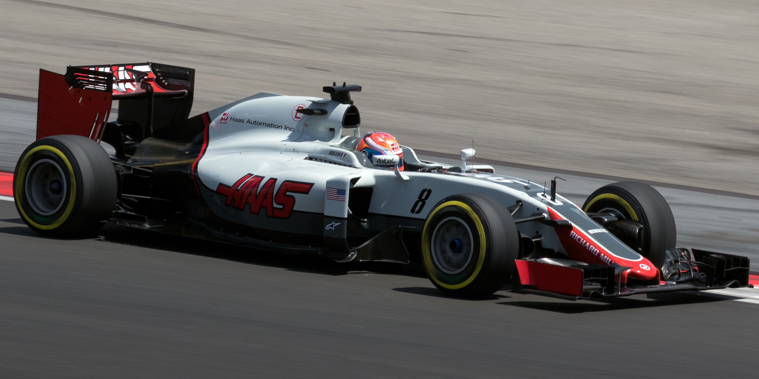 Formula One 2016 Rd.16 Malaysian GP: Romain Grosjean (Haas F1 Team)